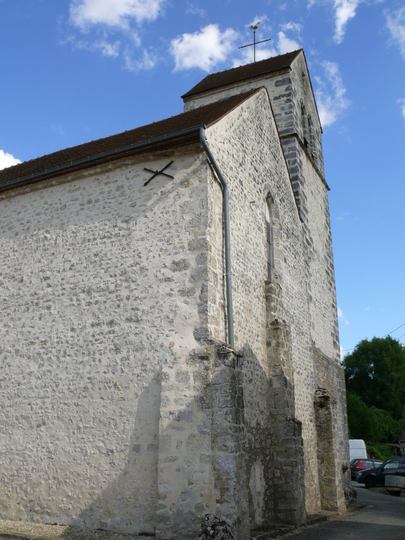 Saint-Julien-le-Pauvre's church of Abbéville-la-Rivière (Essonne, Île-de-France, France).